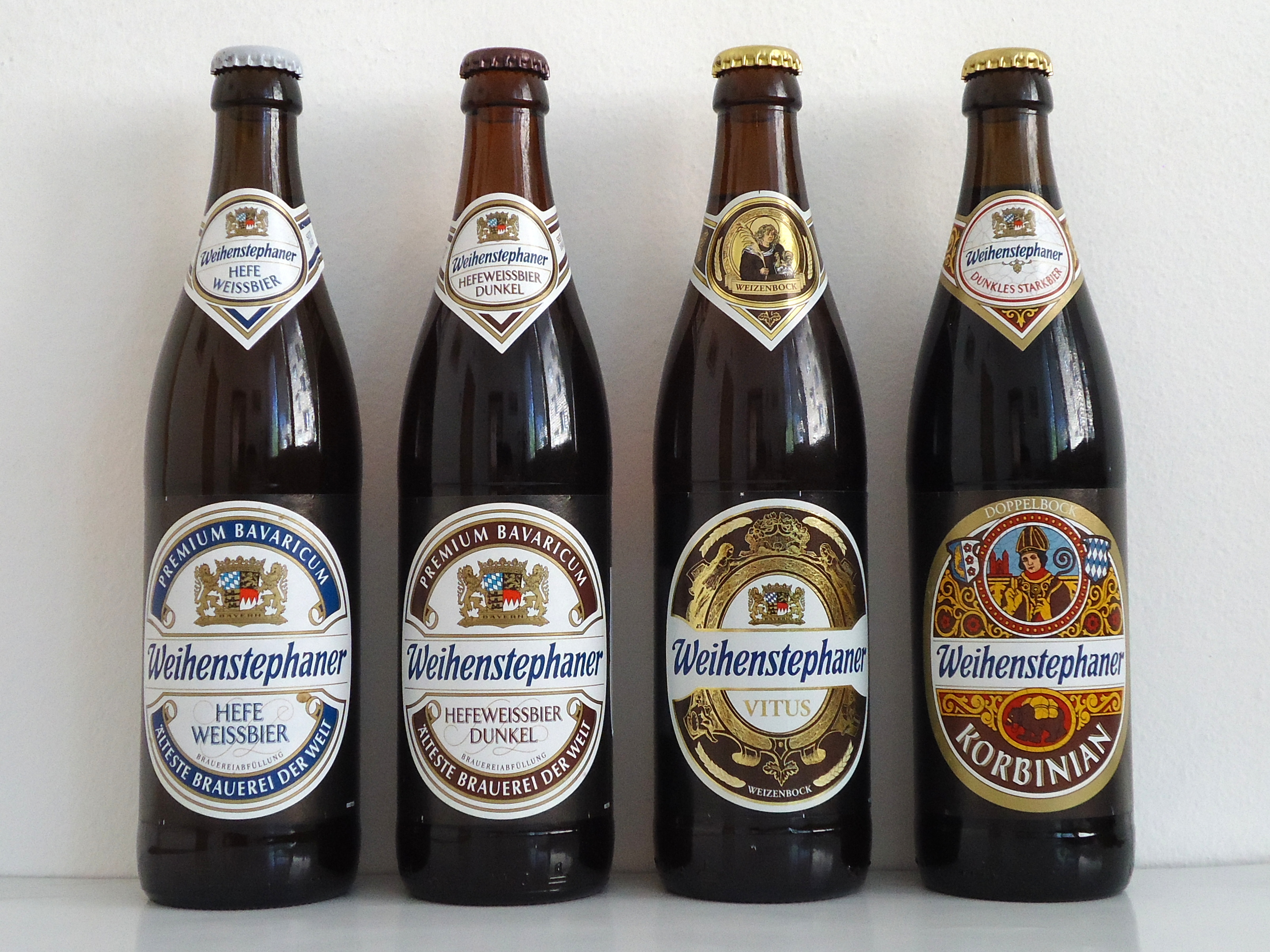 Weihenstephaner 4 beers